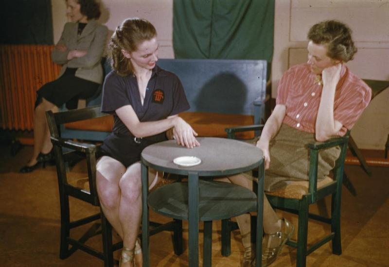 The Ballet Rambert Visiting An Aircraft Factory in Britain Dancers from the Ballet Rambert, under the auspices of CEMA (Council for the Encouragement of Music and the Arts), visiting an aircraft factory in the Midlands. Photo shows: In the factory's hostel, where the corps de ballet stayed for the night, Sally Gilmour (left), ballerina, discusses jobs with Winifred Simpson, hostel welfare officer.